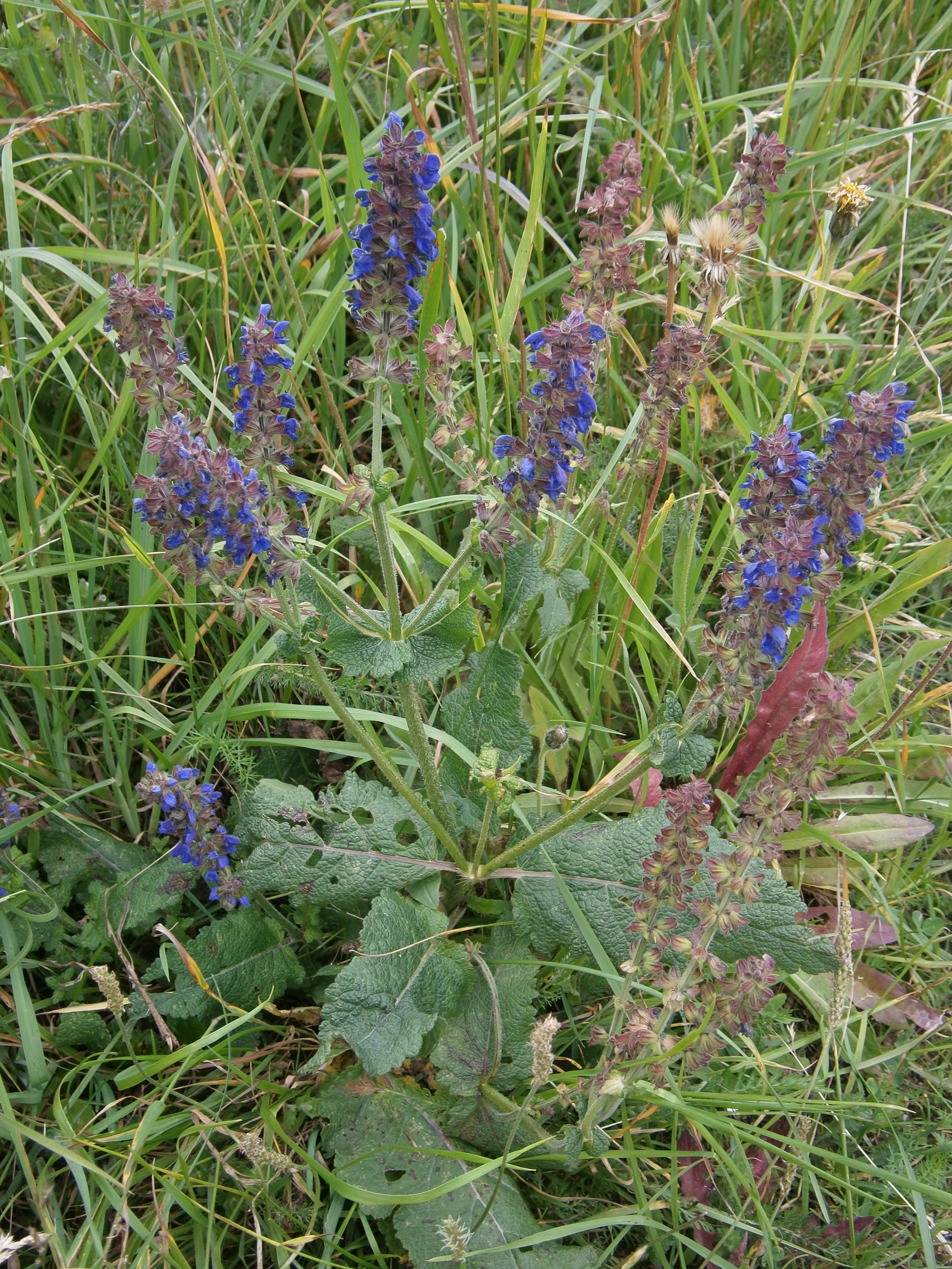 Salvia pratensis